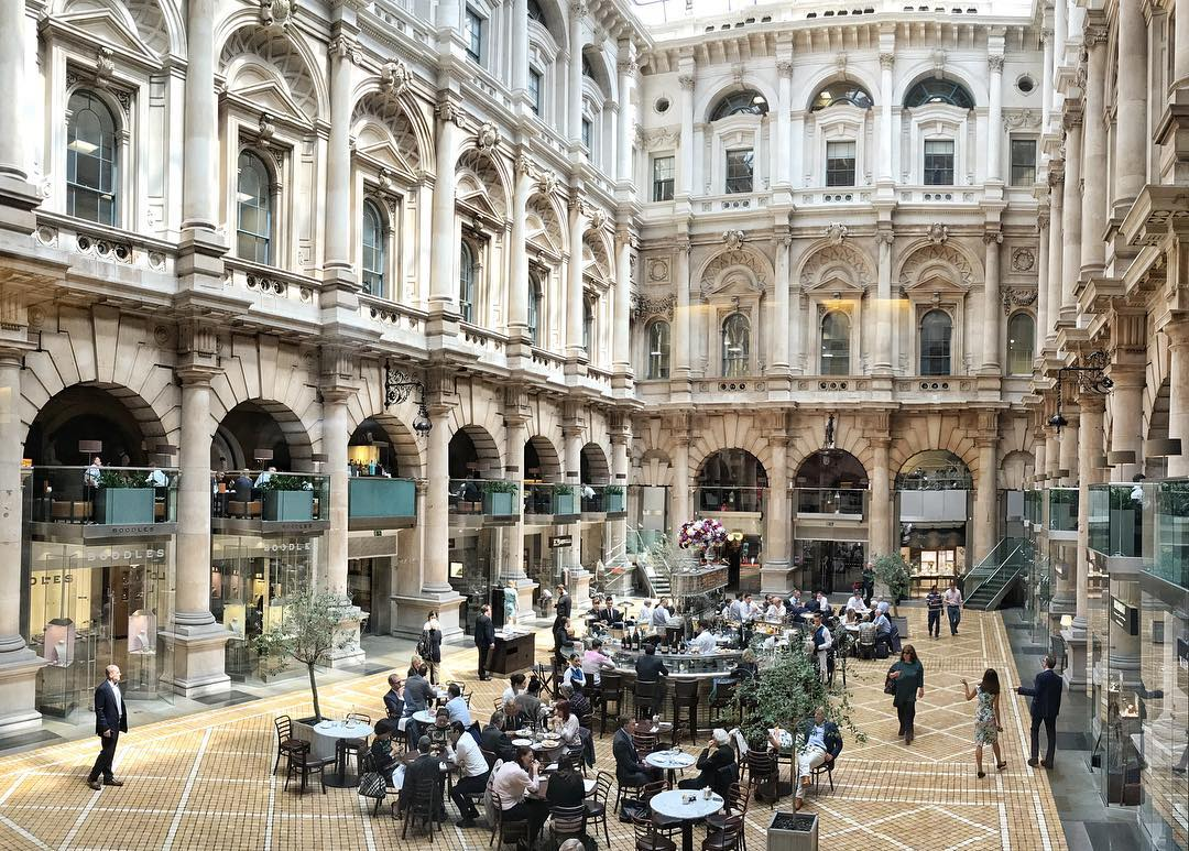 The heart of the #City. #London #squaremile #money